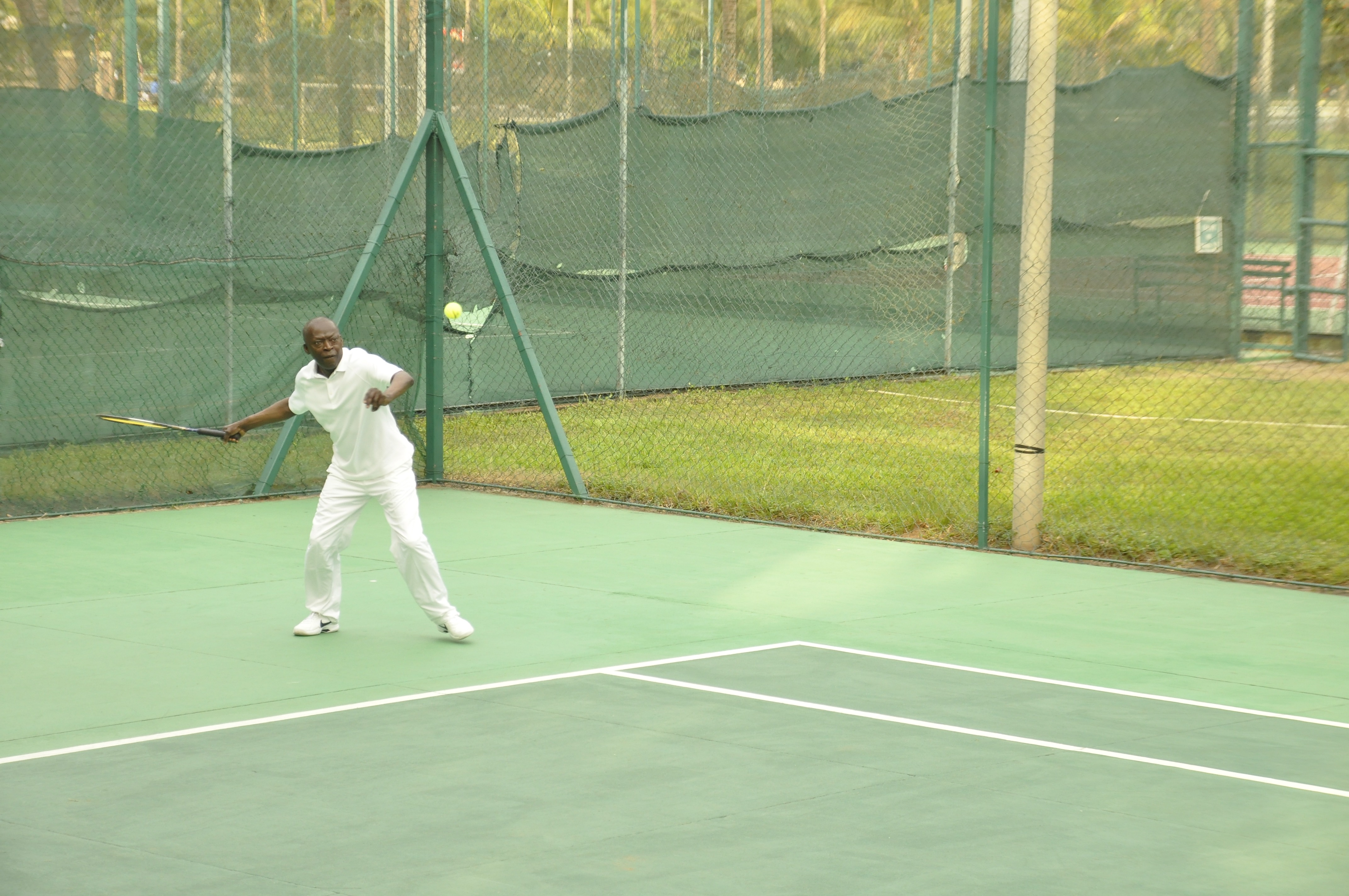 Playing tennis